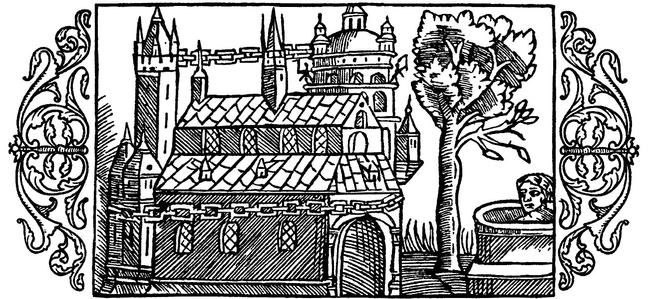 The woodcut illustrates the temple at Old Uppsala which was devoted to the Gods of the Aesis cult. Olaus Magnus writes that it shimmers with a golden lustre. From the golden roof hangs a golden chain which is winding all around the building. To the right a spring in which a person is going to be drowned as a sacrifice.